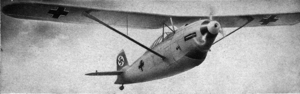 Eocke-Wulf FW159